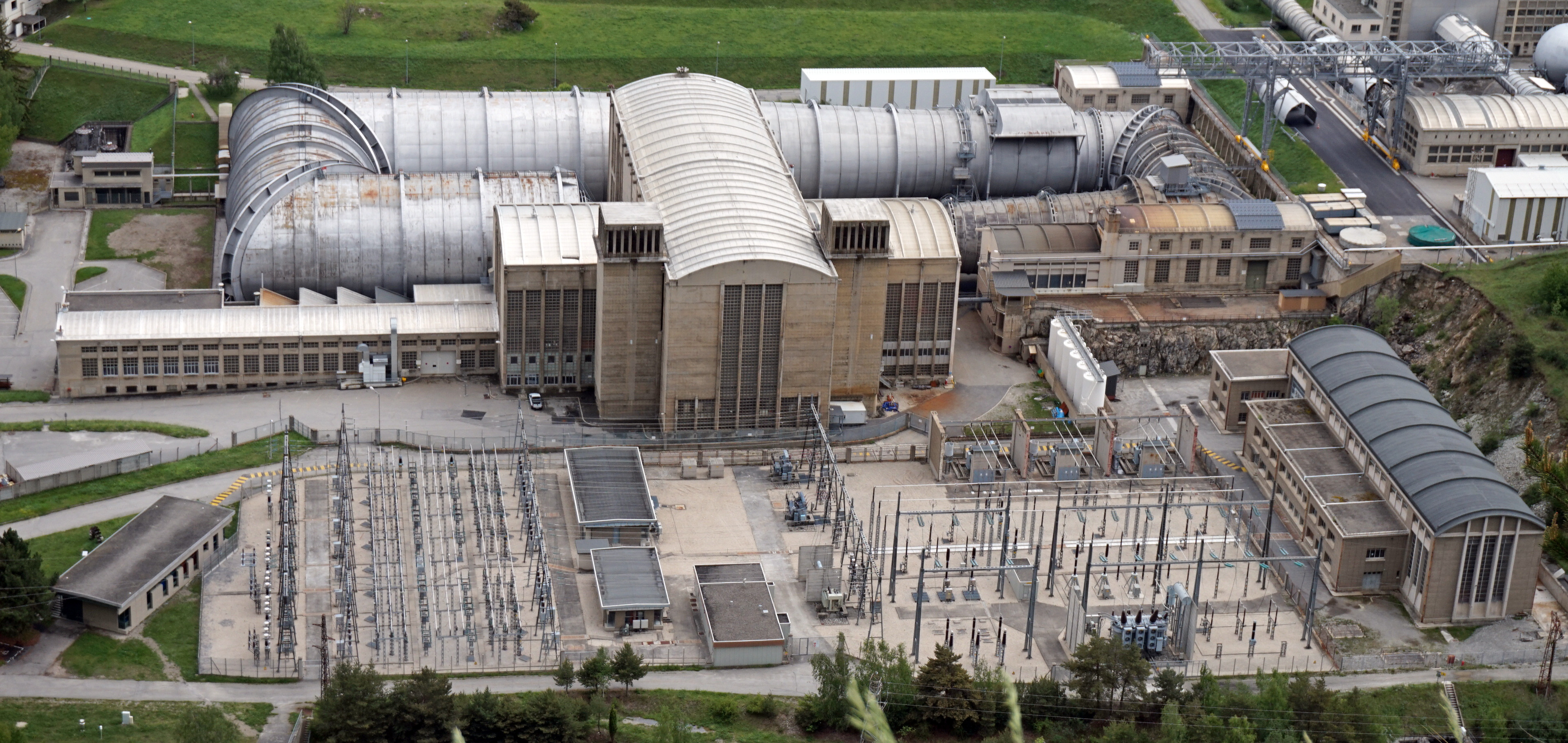 Onera, Office national d'études et de recherches aérospatialesThis photograph was taken with a Sony ILCE-5000